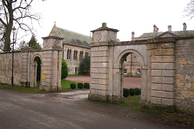 Wellingore Hall gates. Entrance to Wellingore Hall 644043 from Hall Street